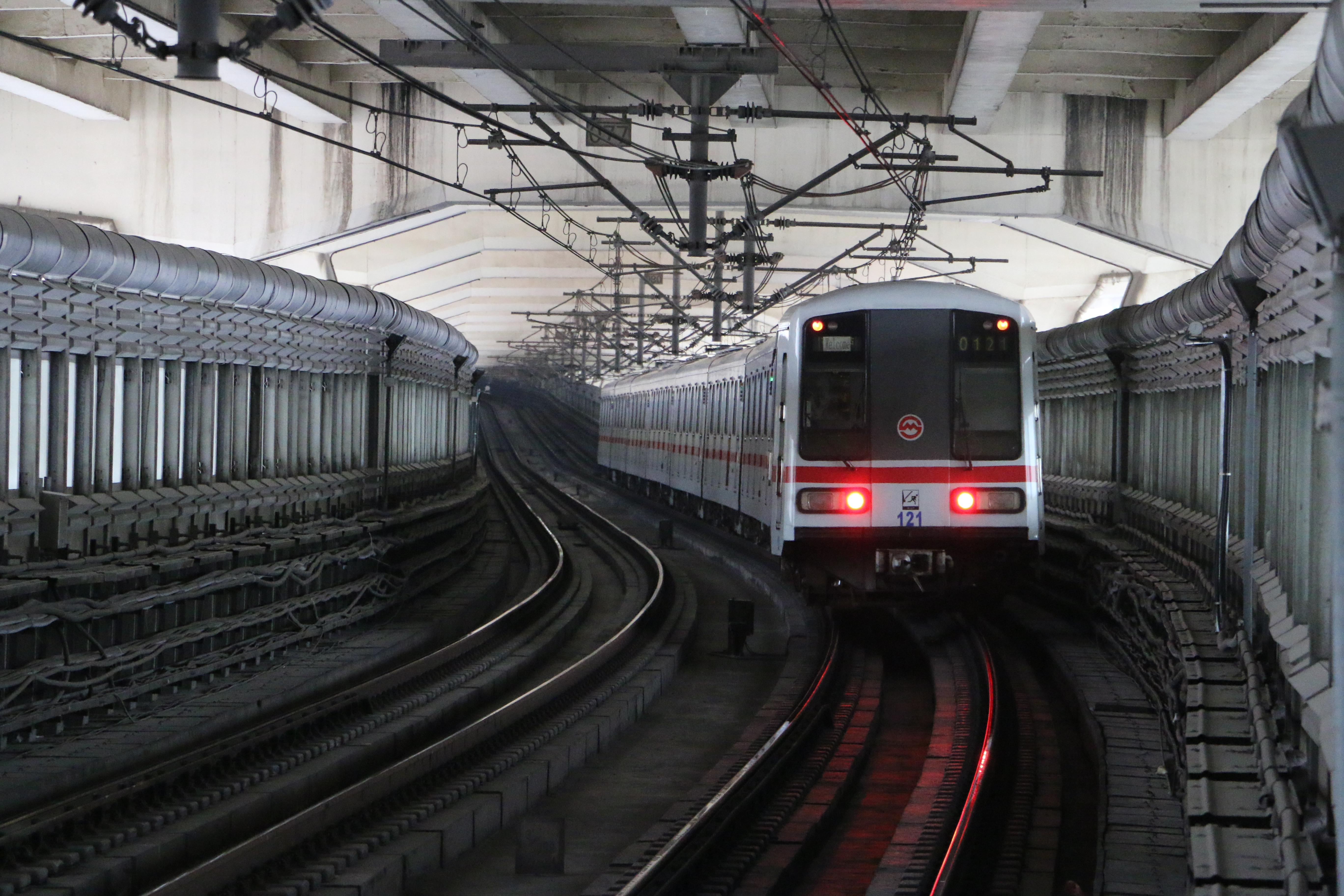 201604 An AC01 train drives under the gonghexin bridge, over the Gonghexin Road near Pengpu Xincun Station.